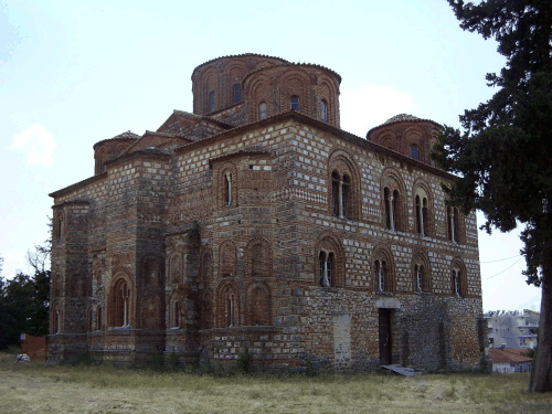 own photograph, summer 2006